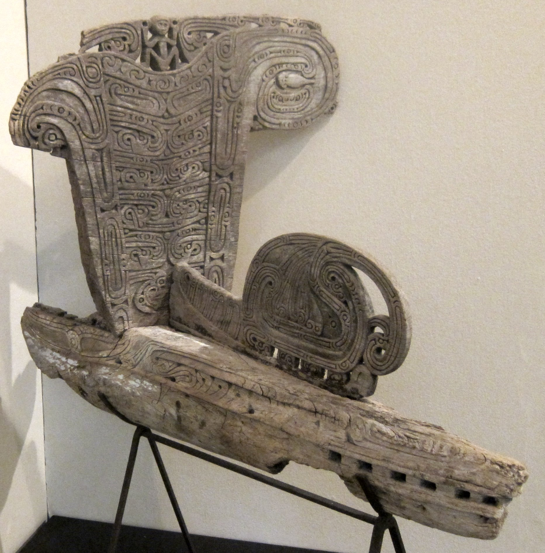 Canoe prow, splash board (rajim) and end panel (tabuya), Papua New Guinea, Massim region, probably Trobriand Islands, wood carved in relief, Honolulu Museum of Art